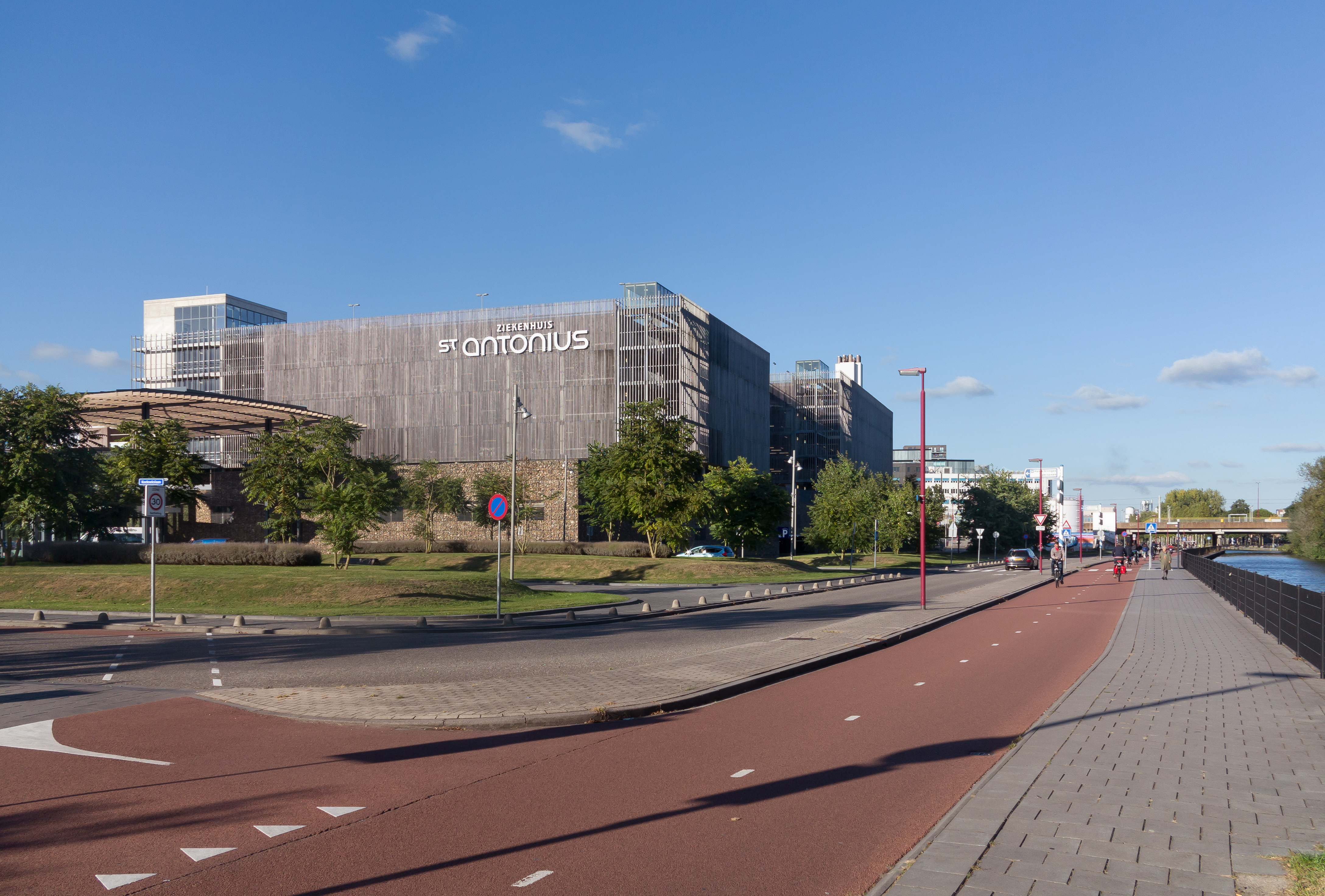 Nieuwegein, cycle track near hospital (het Sint Antonius-ziekenhuis)